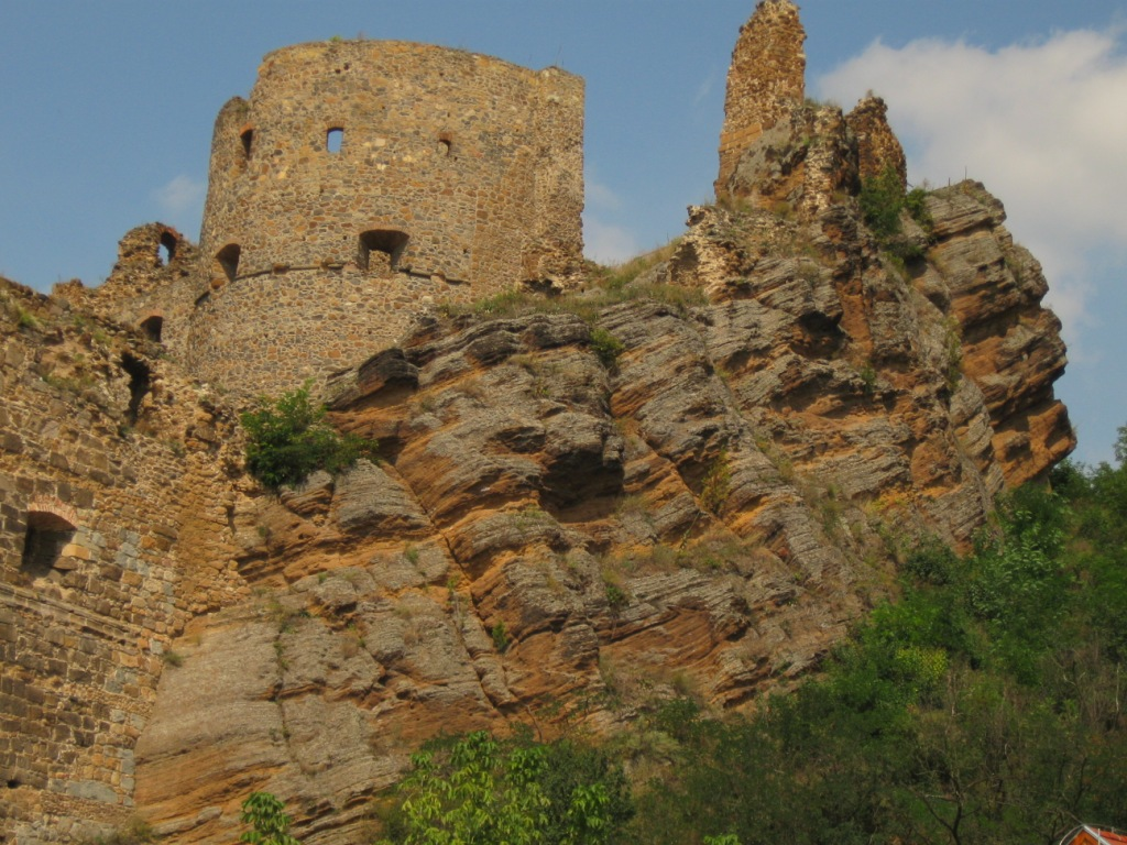 The view on the Fiľakovo Castle in Slovakia, and the tuff ring (remnant of the maar).